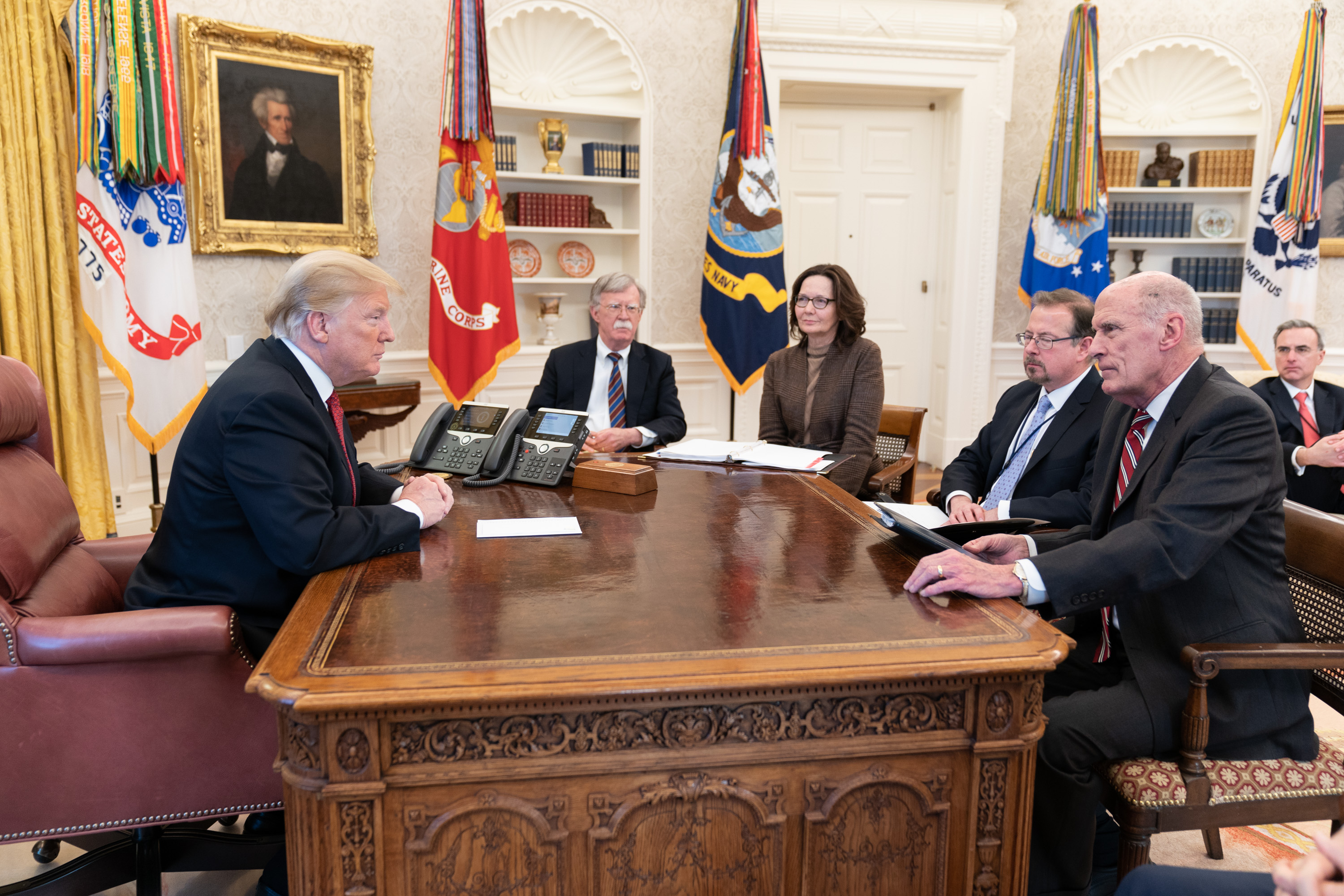 President Donald J. Trump participates in a meeting with National Security Adviser Ambassador John Bolton; Director of the Central Intelligence Agency Gina Haspel and Director of National Intelligence Dan Coats, right, in the Oval Office Thursday, Jan. 31. 2019, at the White House. (Official White House Photo by Shealah Craghead)